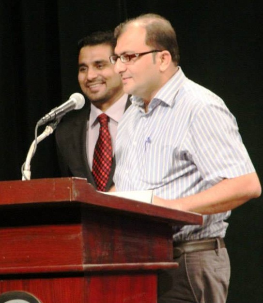 Picture was taken by me At Agahi Awards